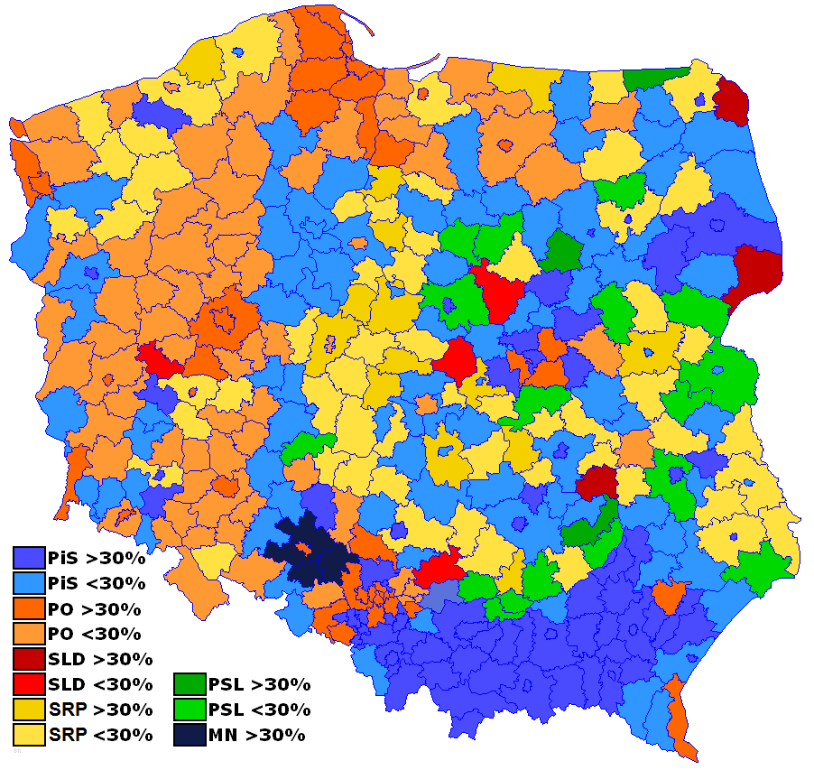 Polish parliamentary election, 2005 - by counties